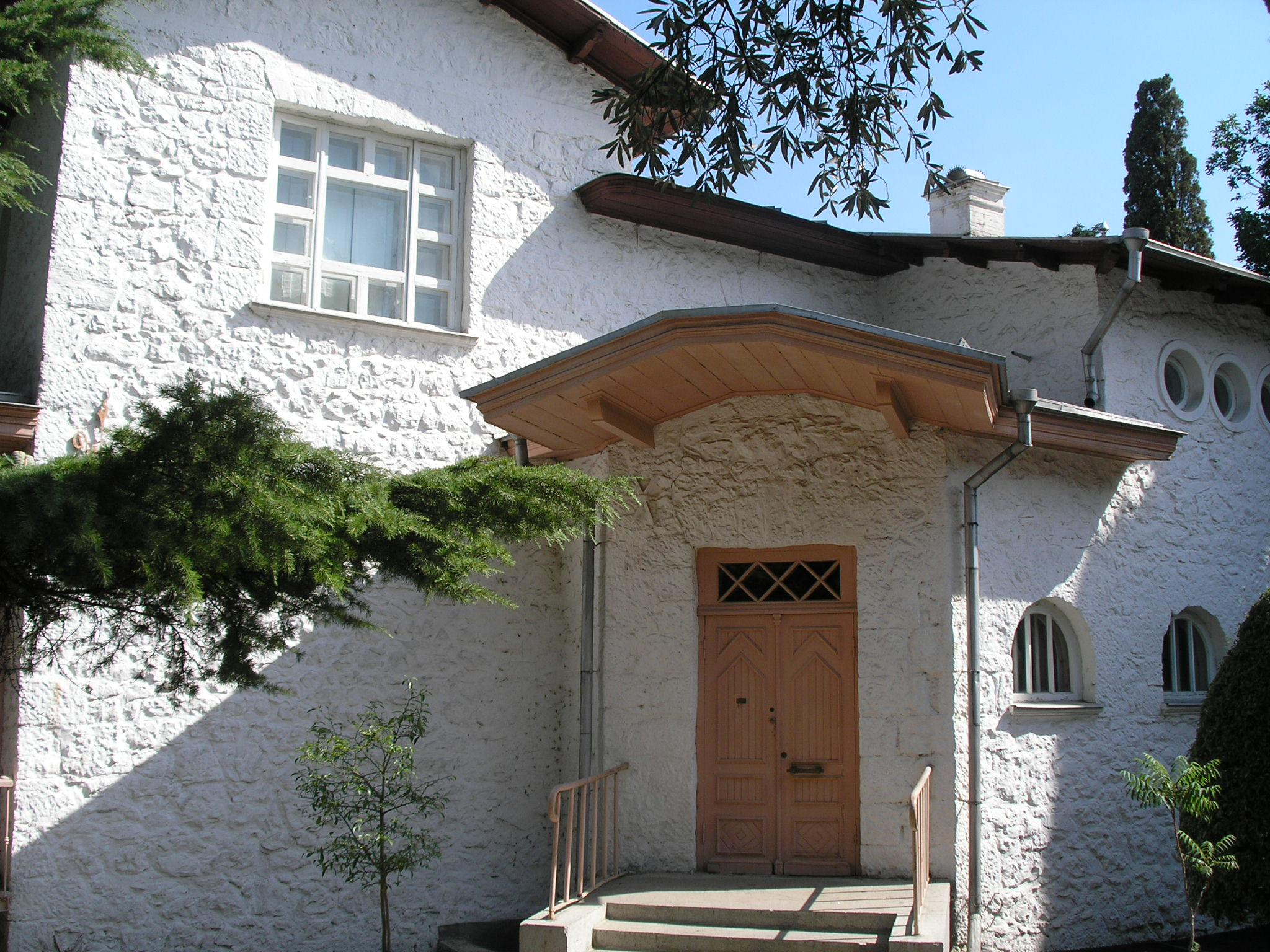 The House-museum of Anton Chekhov in Yalta, Crimea, Ukraine.